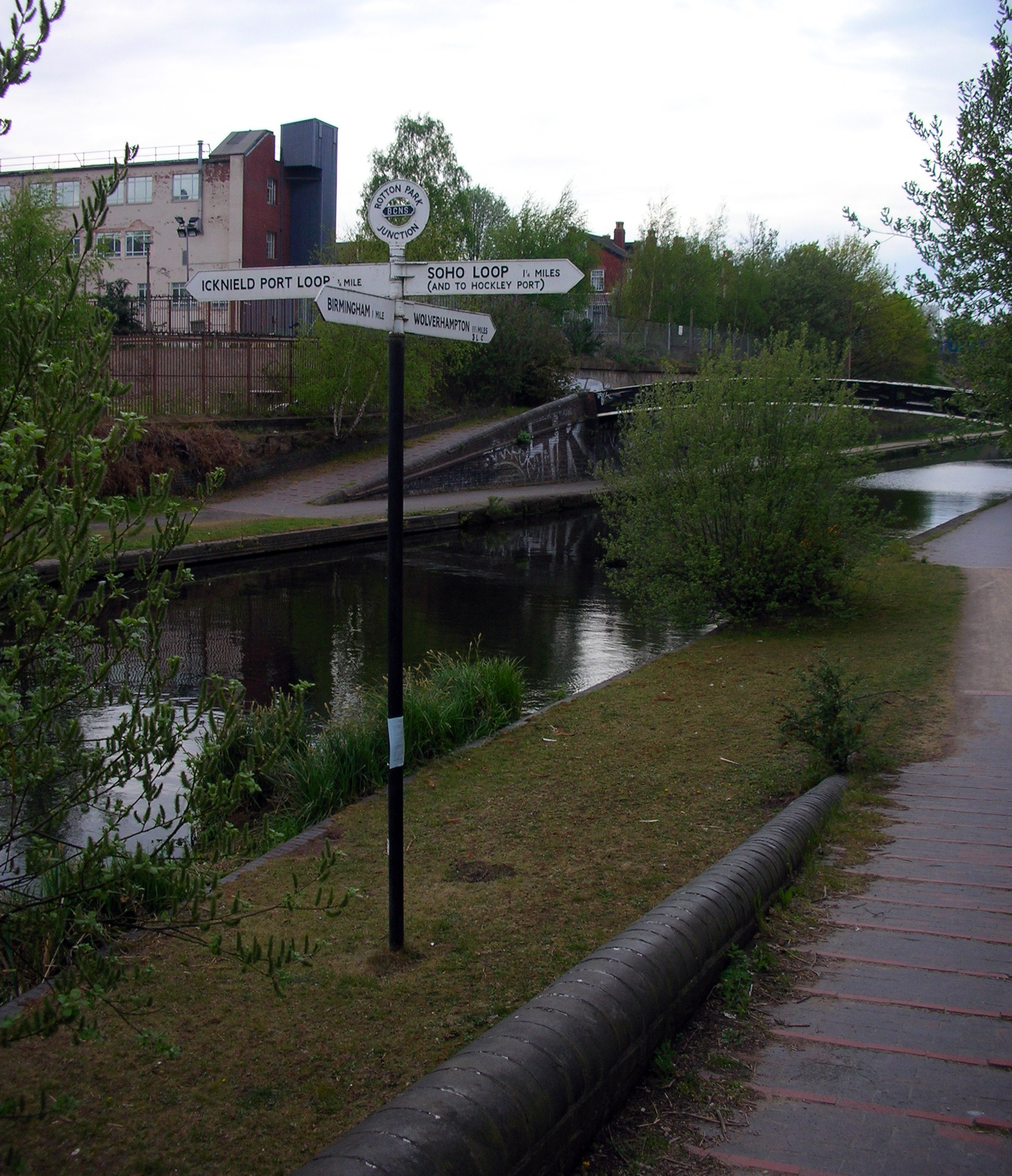 Rotten Park Junction on the BCN Main Line Canal in Birmingham, England.